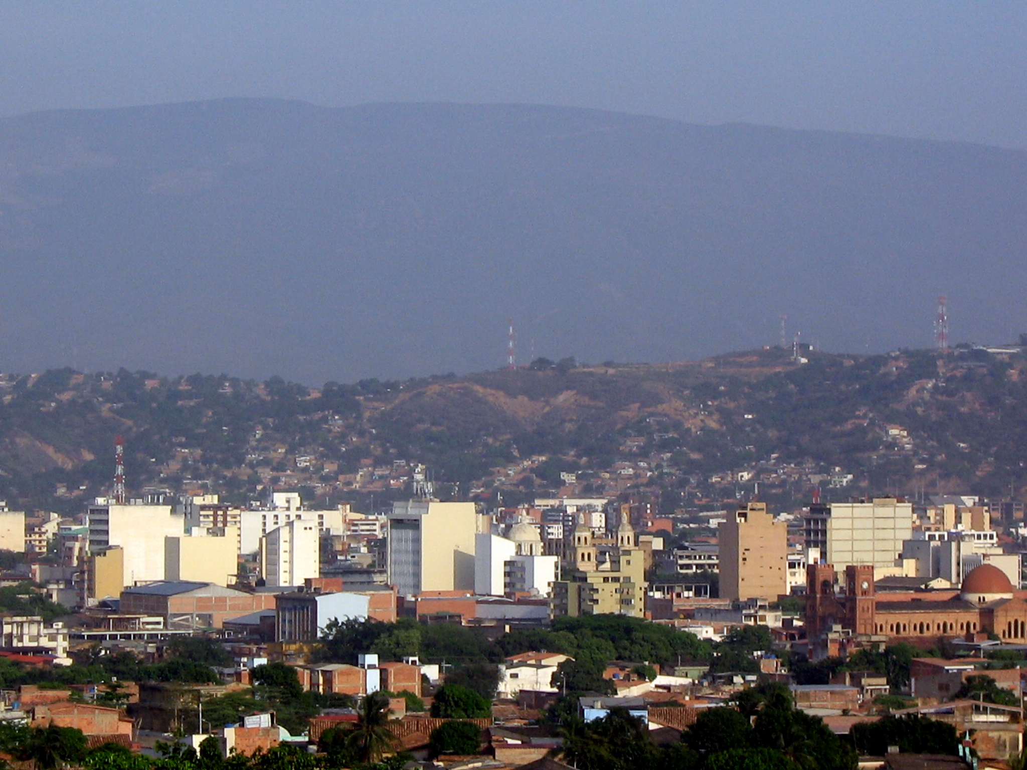 Skyline of Cúcuta, Colombia